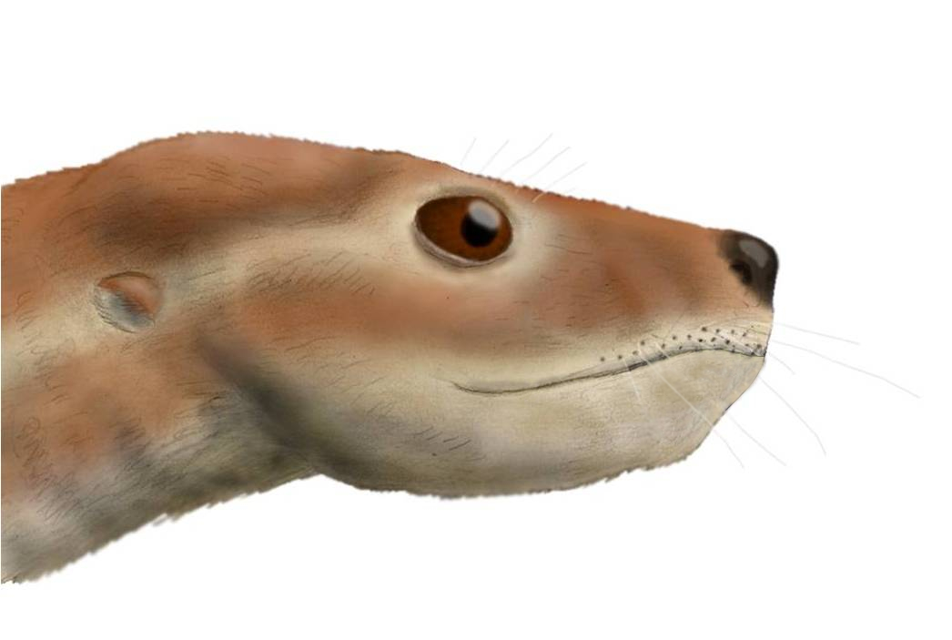 Life restoration of Lumkuia fuzzi.